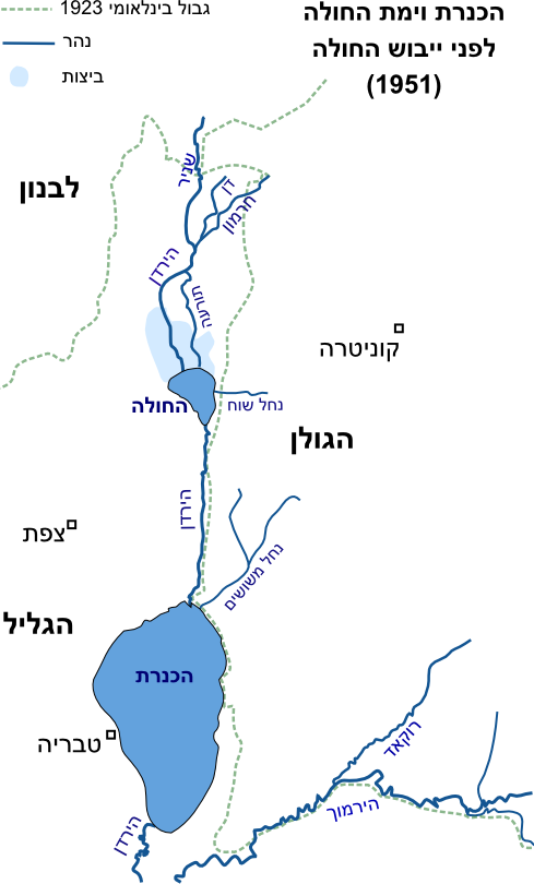 Hebrew map of water sources NE part of the Galilee before 1951